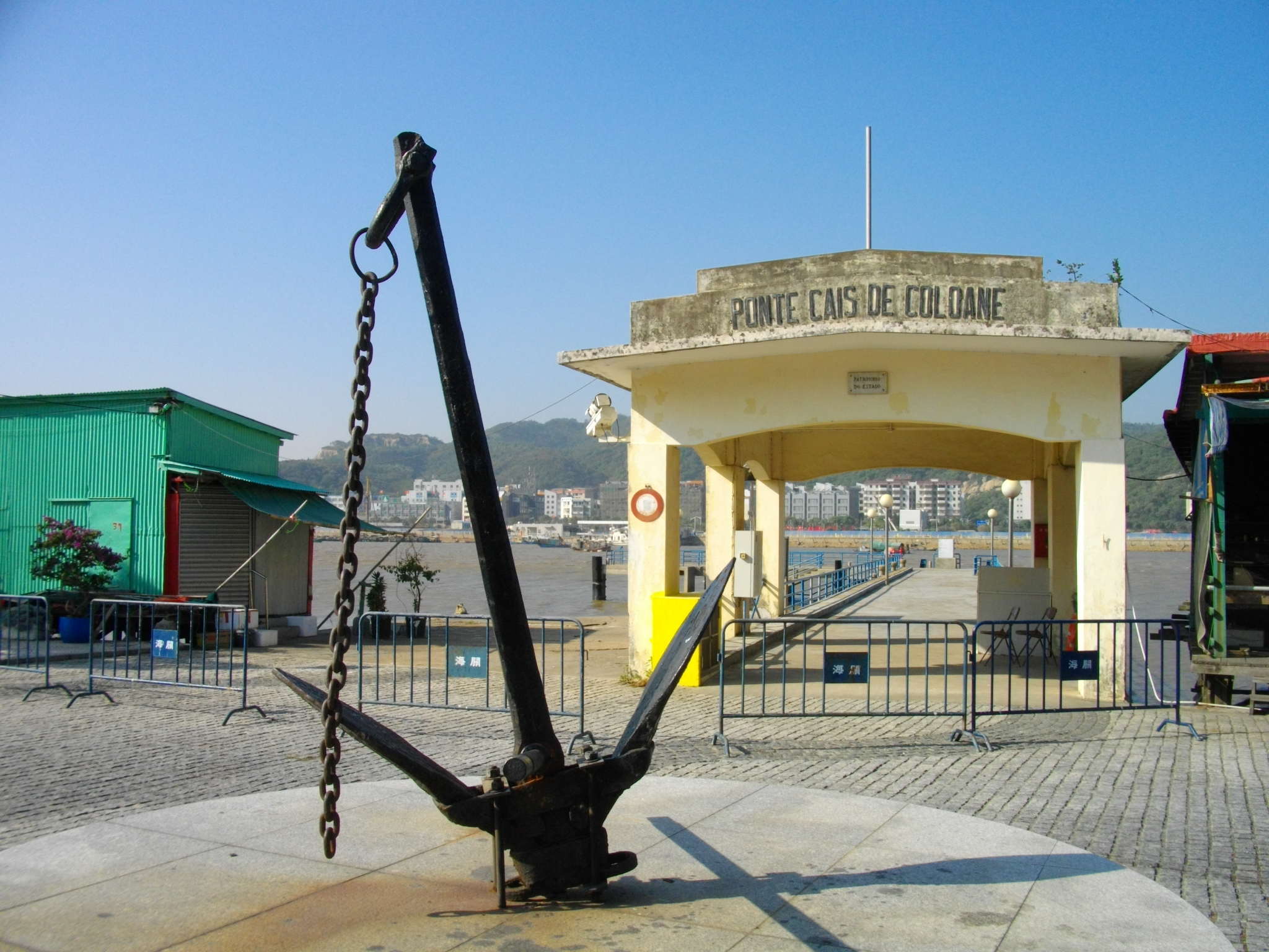 Coloane Pier